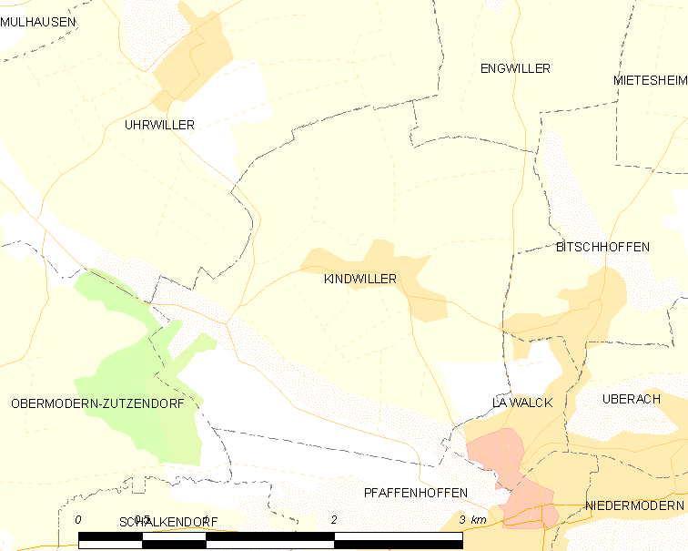 Map of French municipality